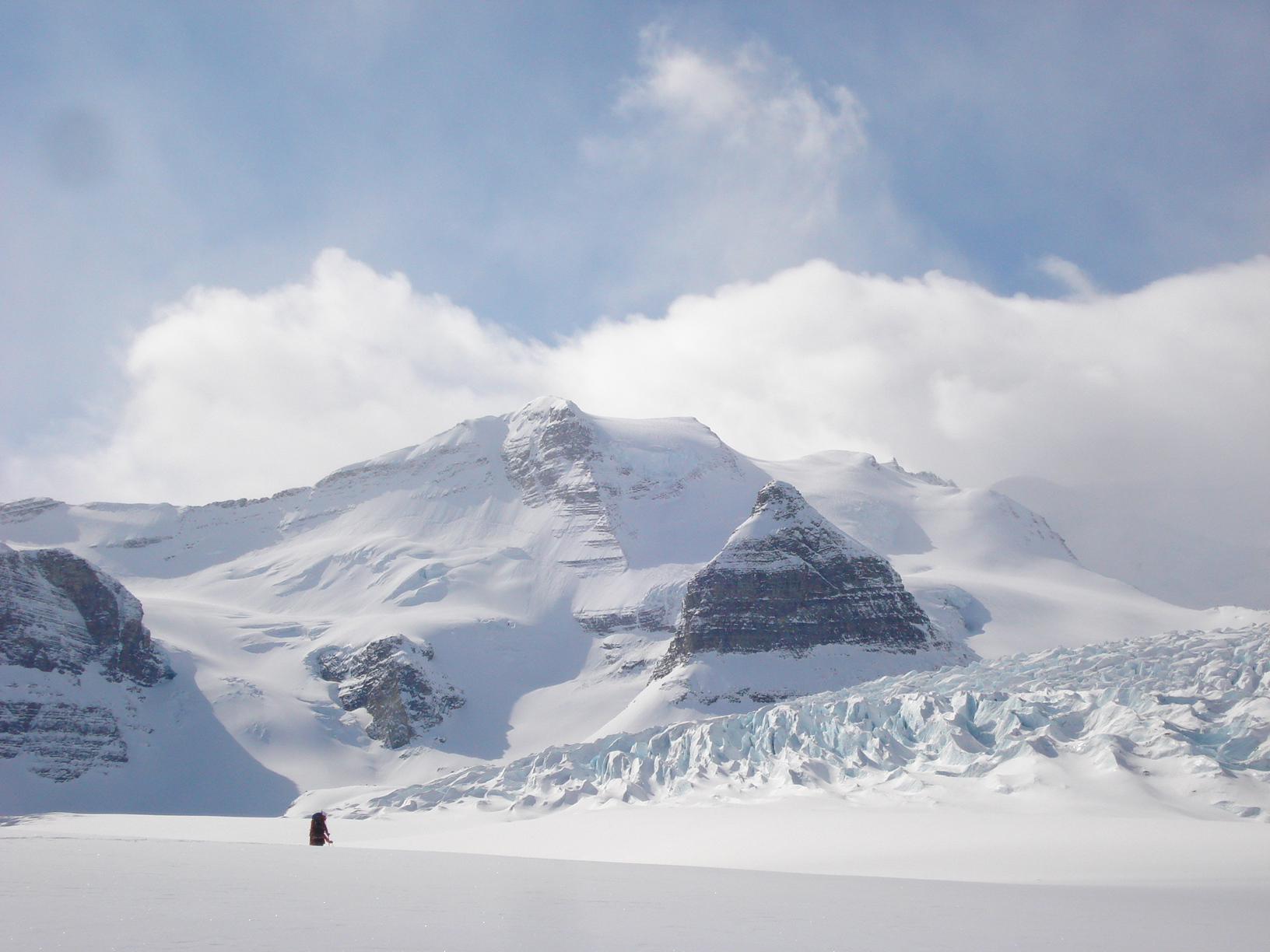 Mount Resplendent is a peak in the Canadian Rockies, located within Mount Robson Provincial Park in British Columbia.